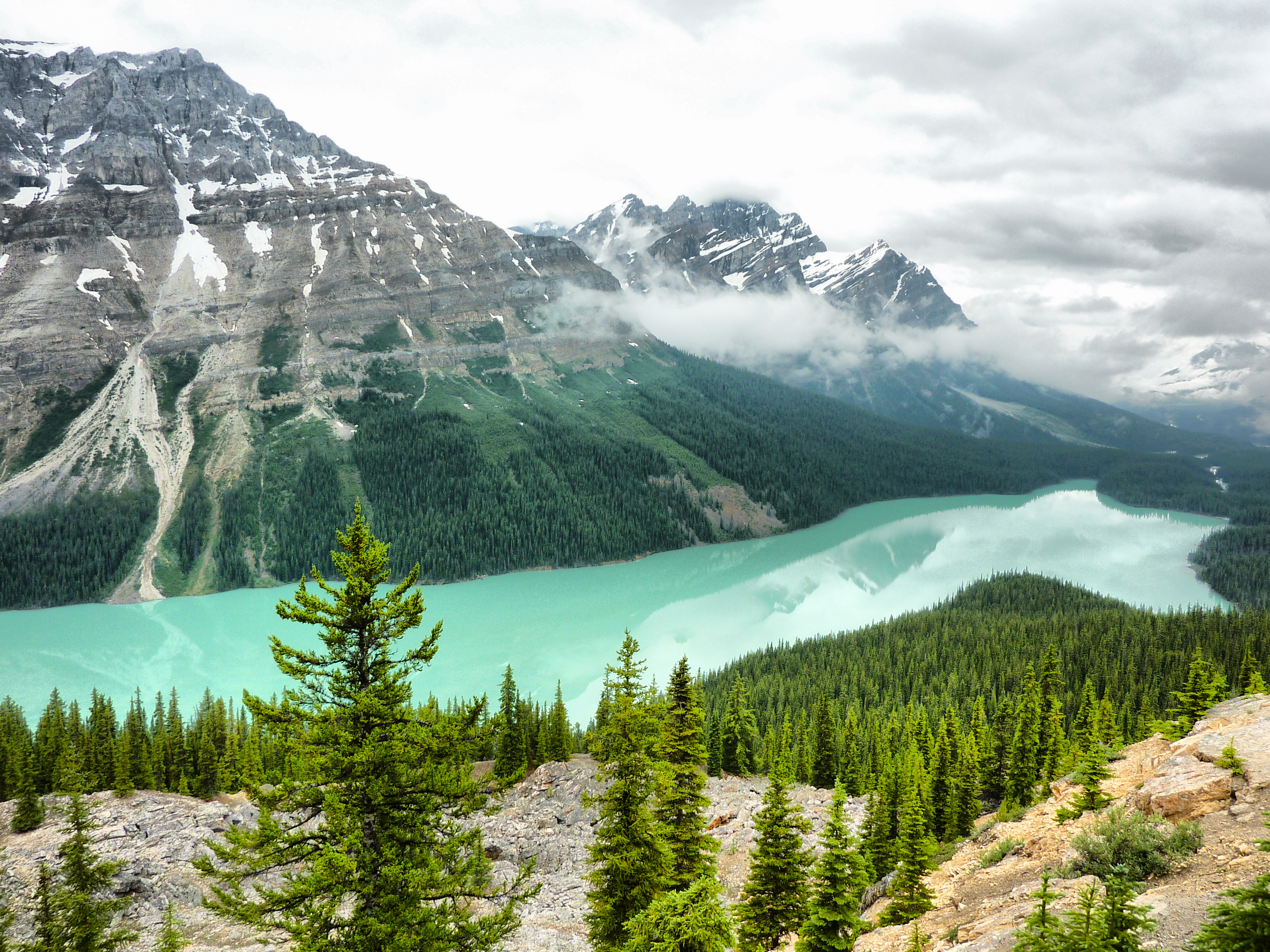 Icefields Parkway